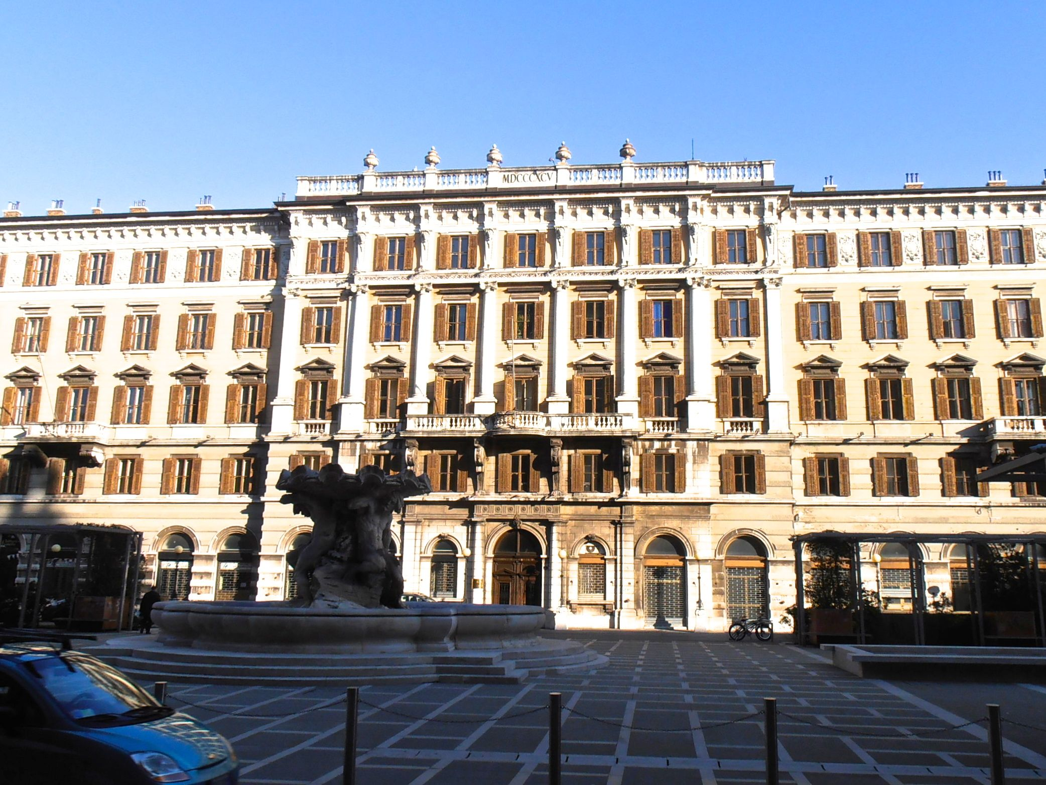 Trieste, piazza Vittorio Veneto: palazzo delle Ferrovie.